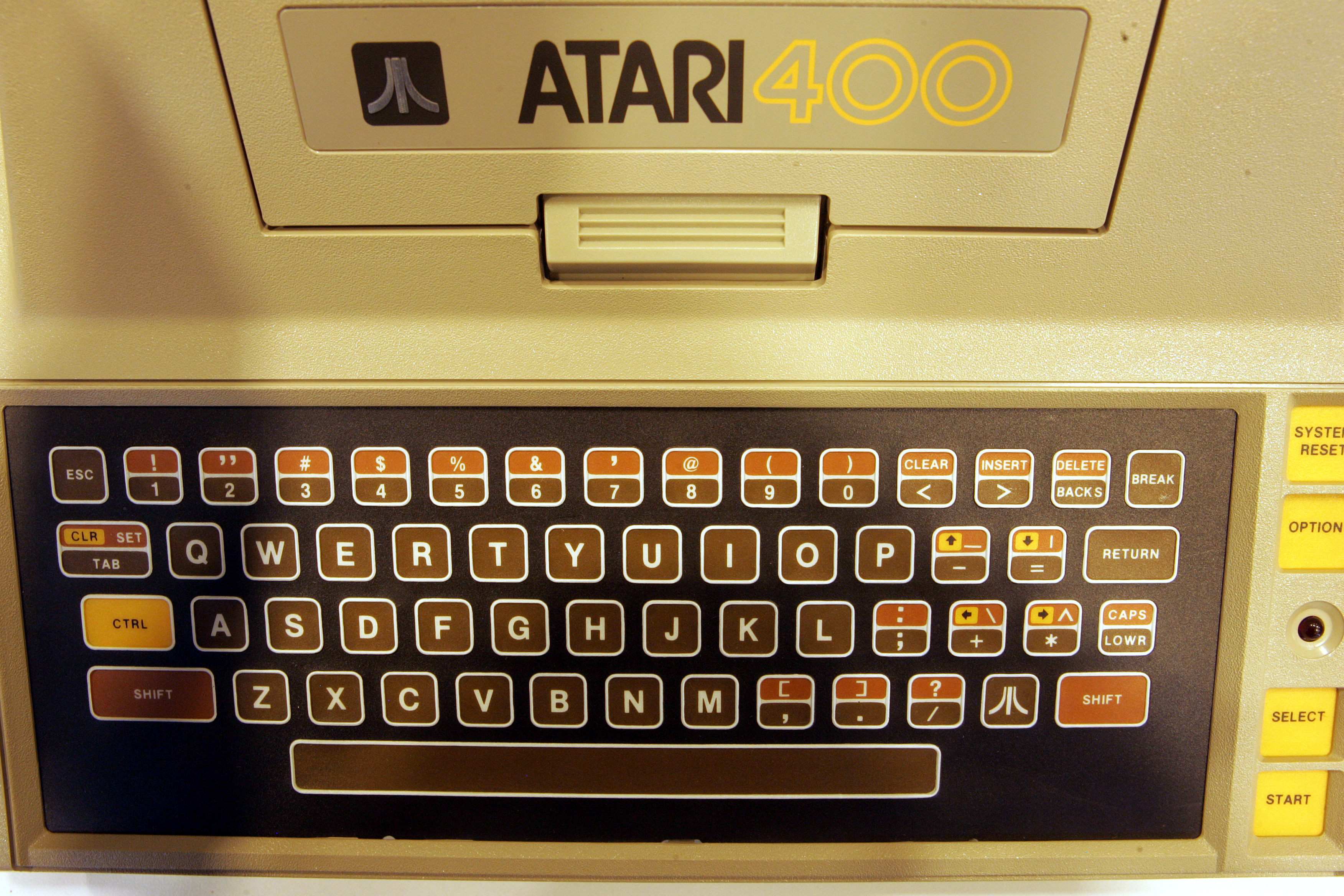 Atari 400 computer